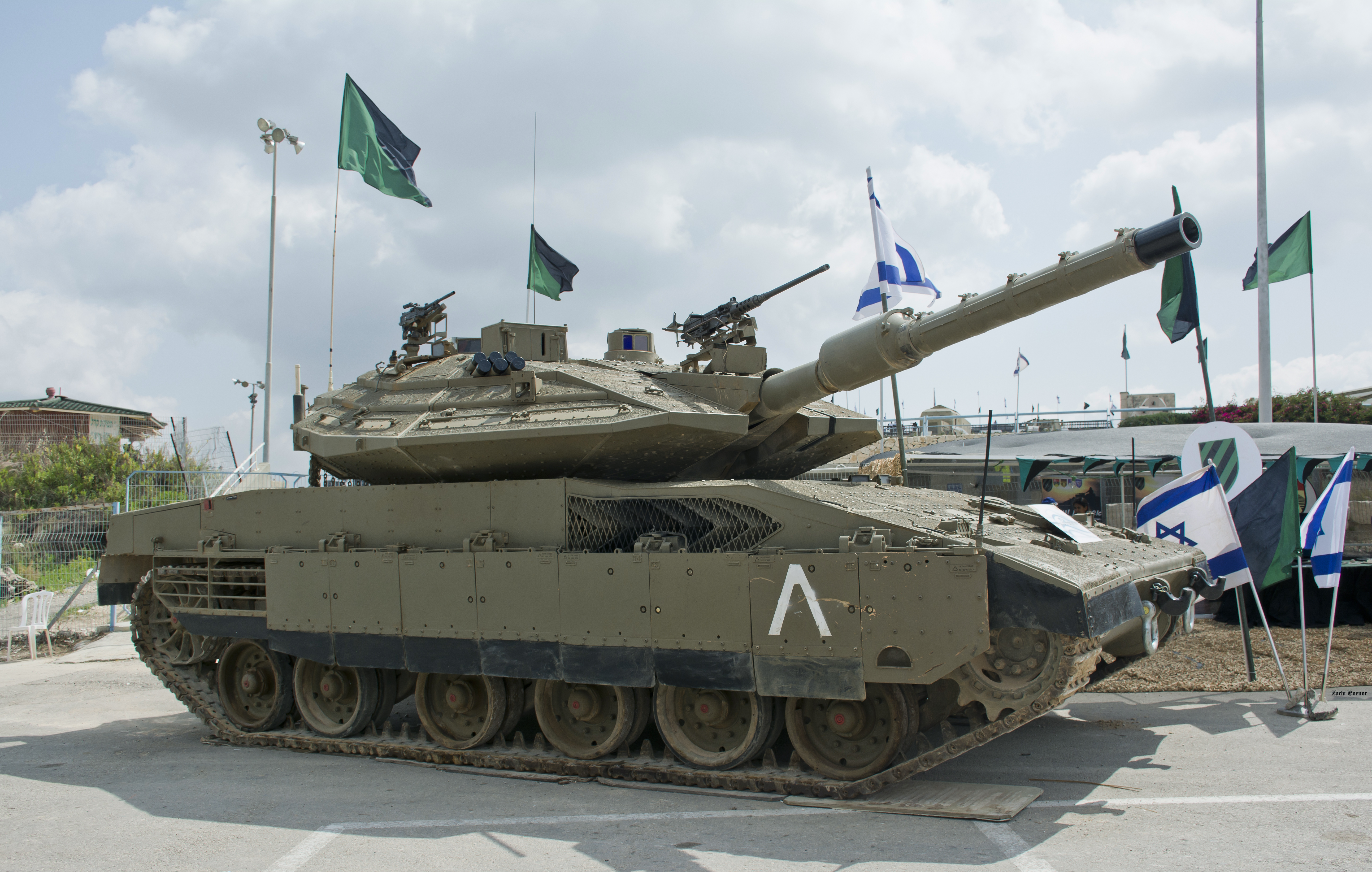 IDF Merkava 4 main battle tank